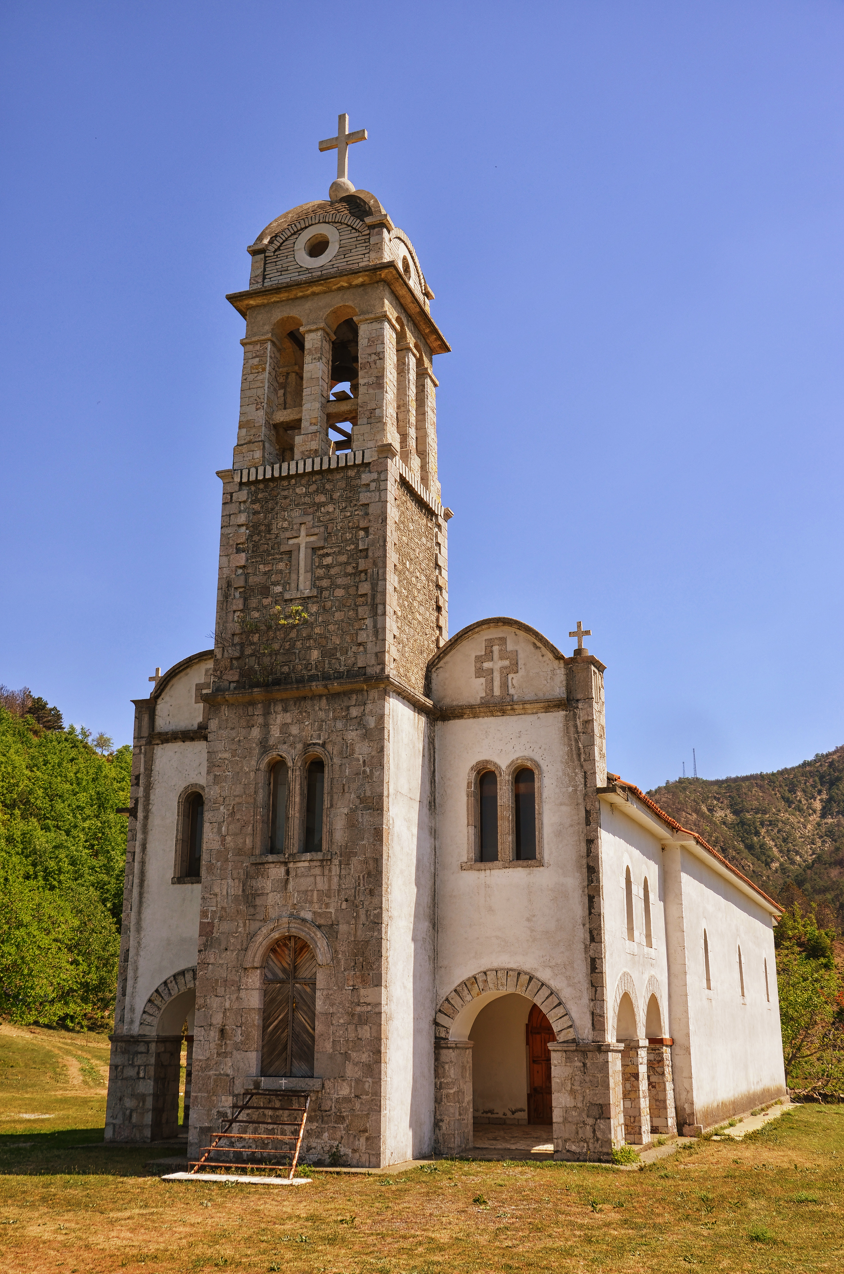 The Roman Catholic church of Orosh, Mirditë, Albania